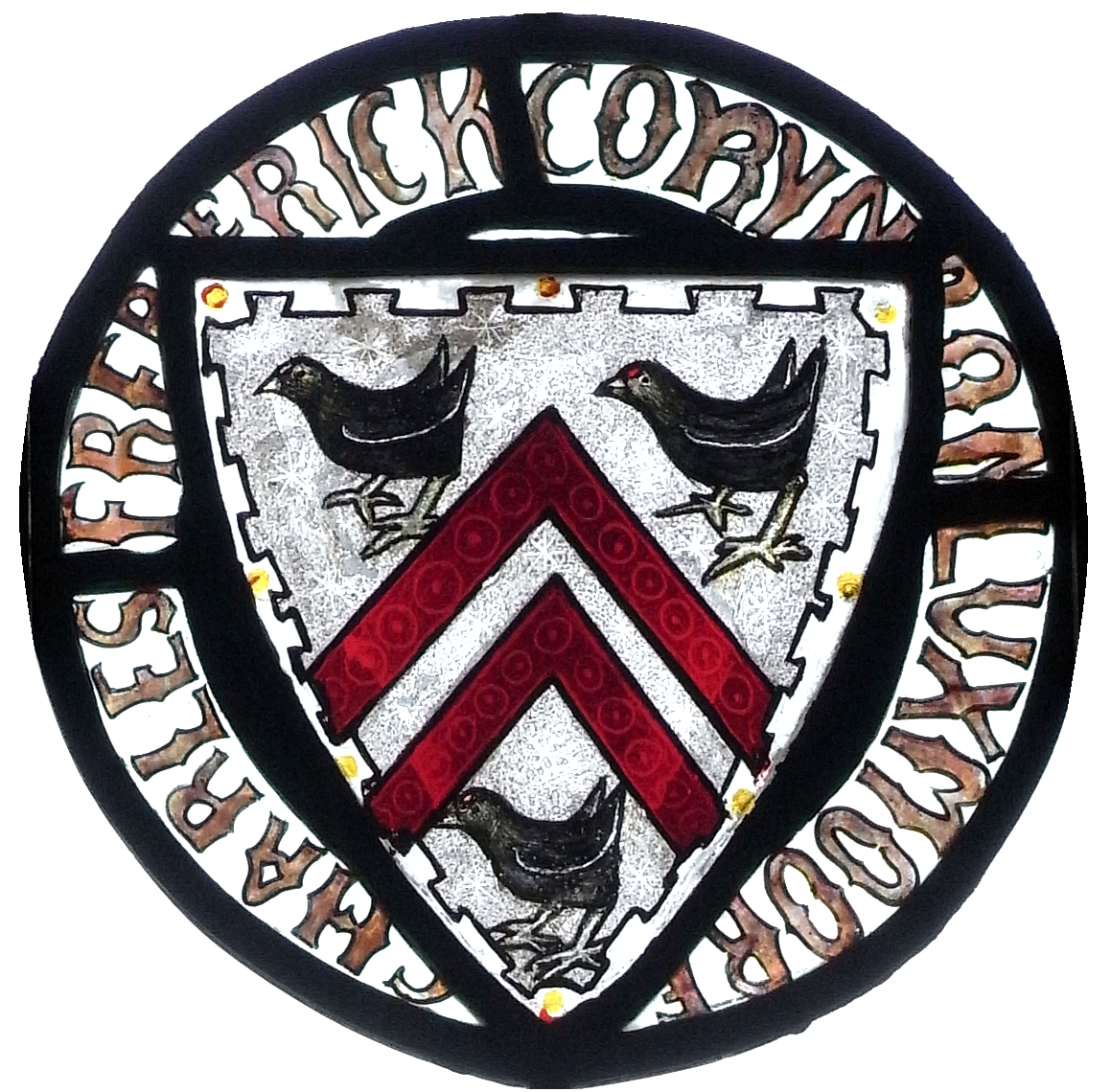 Canting arms of Charles Frederick Coryndon Luxmoore: Argent, two chevronells gules between three moorcocks close proper a bordure embattled of the first bezantée. Stained glass window in the plastered ceiling room, Stafford Barton, Dolton, Devon, which house in 1912 Charles Frederick Coryndon Luxmoore purchased and substantially remodelled. The birds are blazoned in Burke's Landed Gentry, p.1440 as moorcocks (ie Black Grouse) but appear to be depicted here as moorhens, a totally different bird. Also the BLG blazon gives a bordure nebuly sable charged with eight bezants, which (apart from the bezants) is not depicted in this image. Bordures bezantée generally indicate a connection with the Duchy of Cornwall, and Luxmoore's ancestor John Luxmoore (1692-1750) of Witherdon and of Northmore House (now the Town Hall), Okehampton, an Attorney-at-Law, the owner of Okehampton Castle, was the Assay-Master of Tin for the Duchy of Cornwall. The common ancestor John Luxmoore (d.1742) married the heiress Mary Coryndon, daughter of Thomas Coryndon (d.1714), who in his will bequeathed the great tithes of Broadwoodwidger and Germansweek to his son-in-law John Luxmoore and these were held by the Luxmoore family until 1907. A ledger-stone in Bratton Clovelly Church, Devon, of John Luxmore (1632-1674) and his wife Temperance, displays the Luxmore arms sculpted in relief.